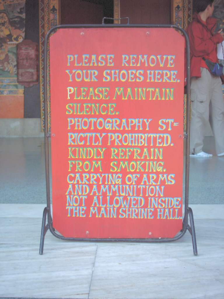 by Bogman, Danny Burke, Feb 2003